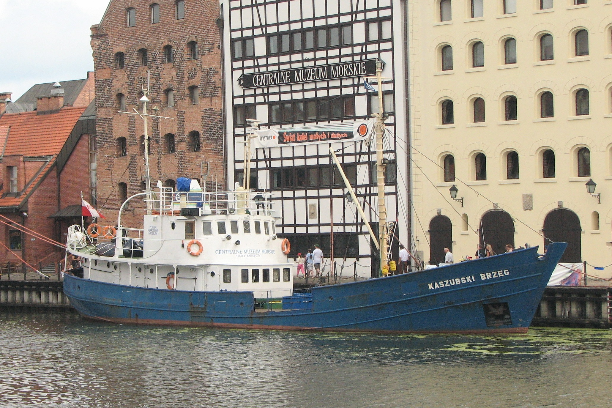 Polish research vessel KASZUBSKI BRZEG on the Motlawa River in Gdansk, Poland